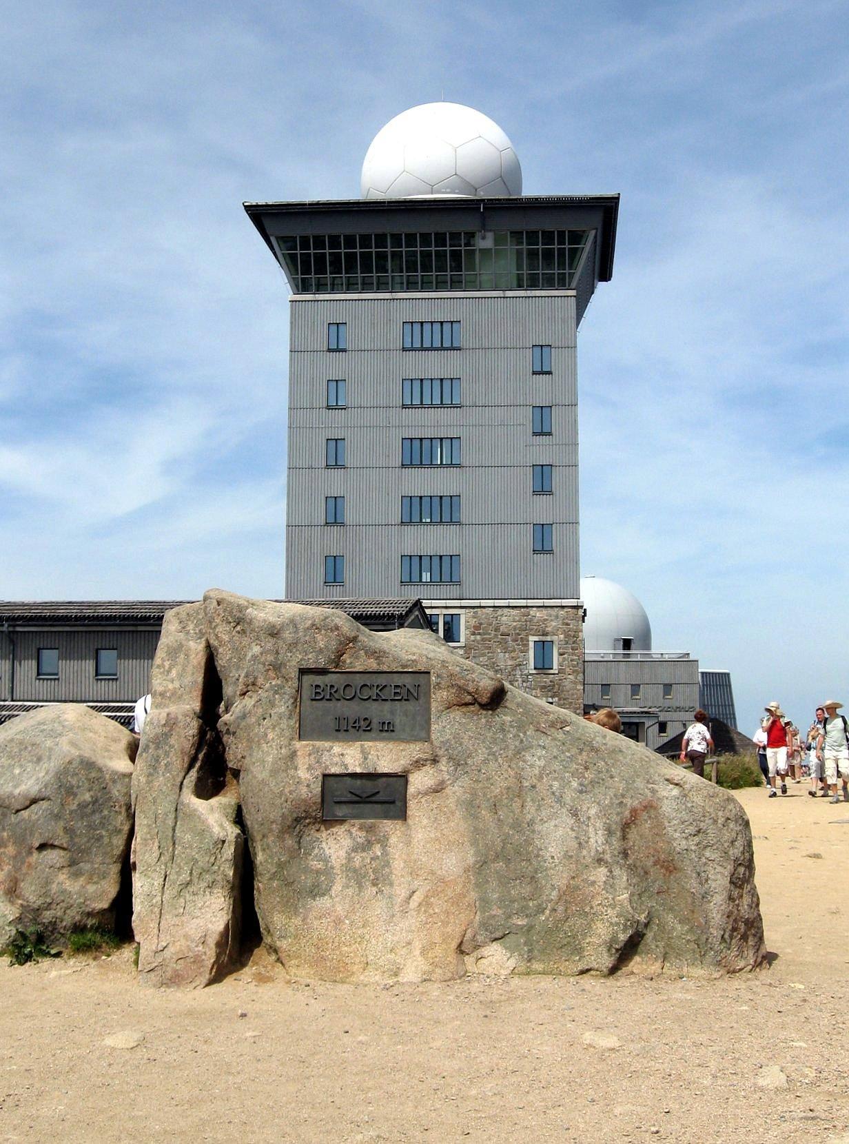 Germany / Harz : mountain Brocken